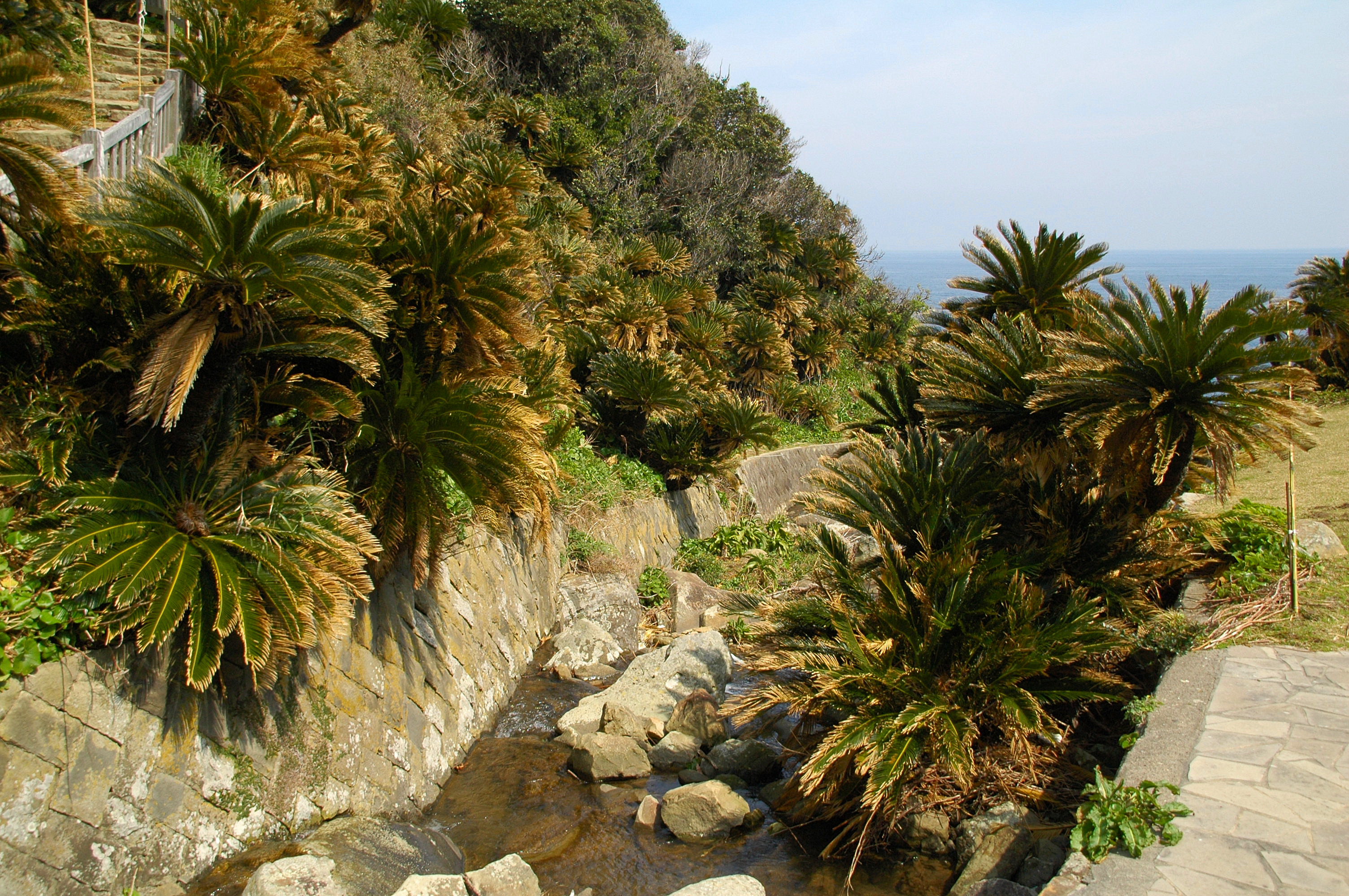 This is a cycad that grows(These are specified for a special monument of Japan.) naturally in the Cape Toi (Kushima City)